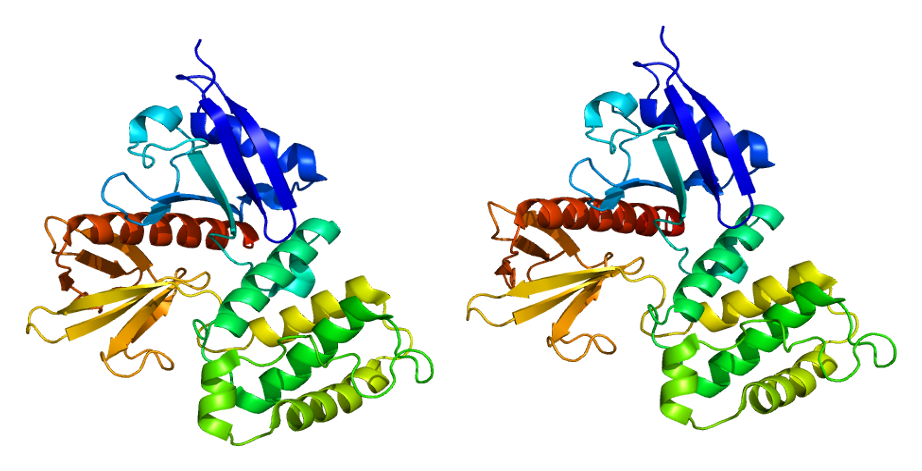 Structure of the VIL2 protein. Based on PyMOL rendering of PDB 1ni2.